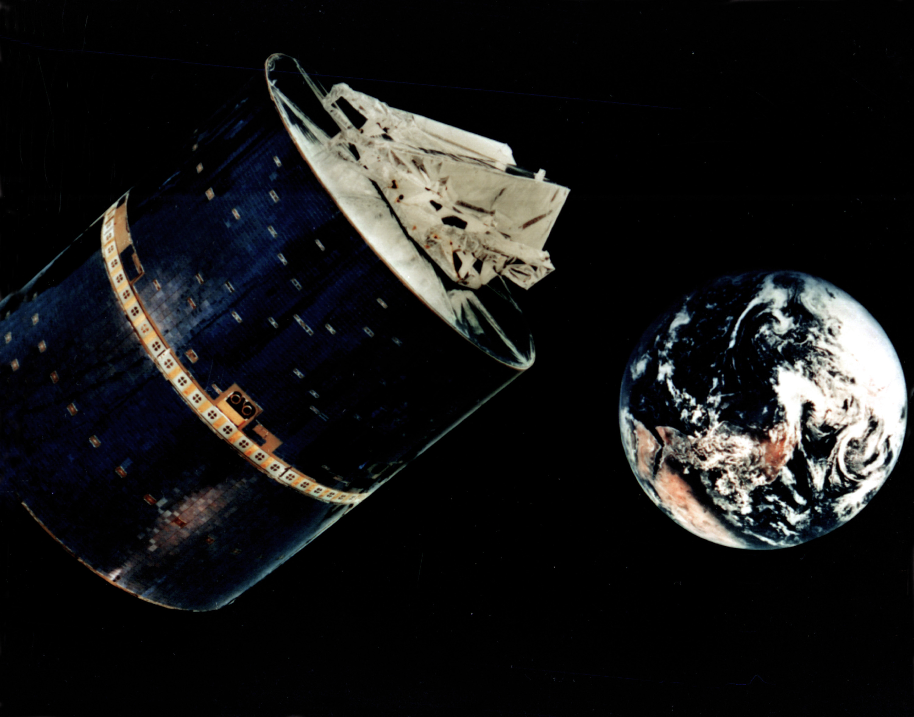 Artist's concept of a NATO III satellite in space.